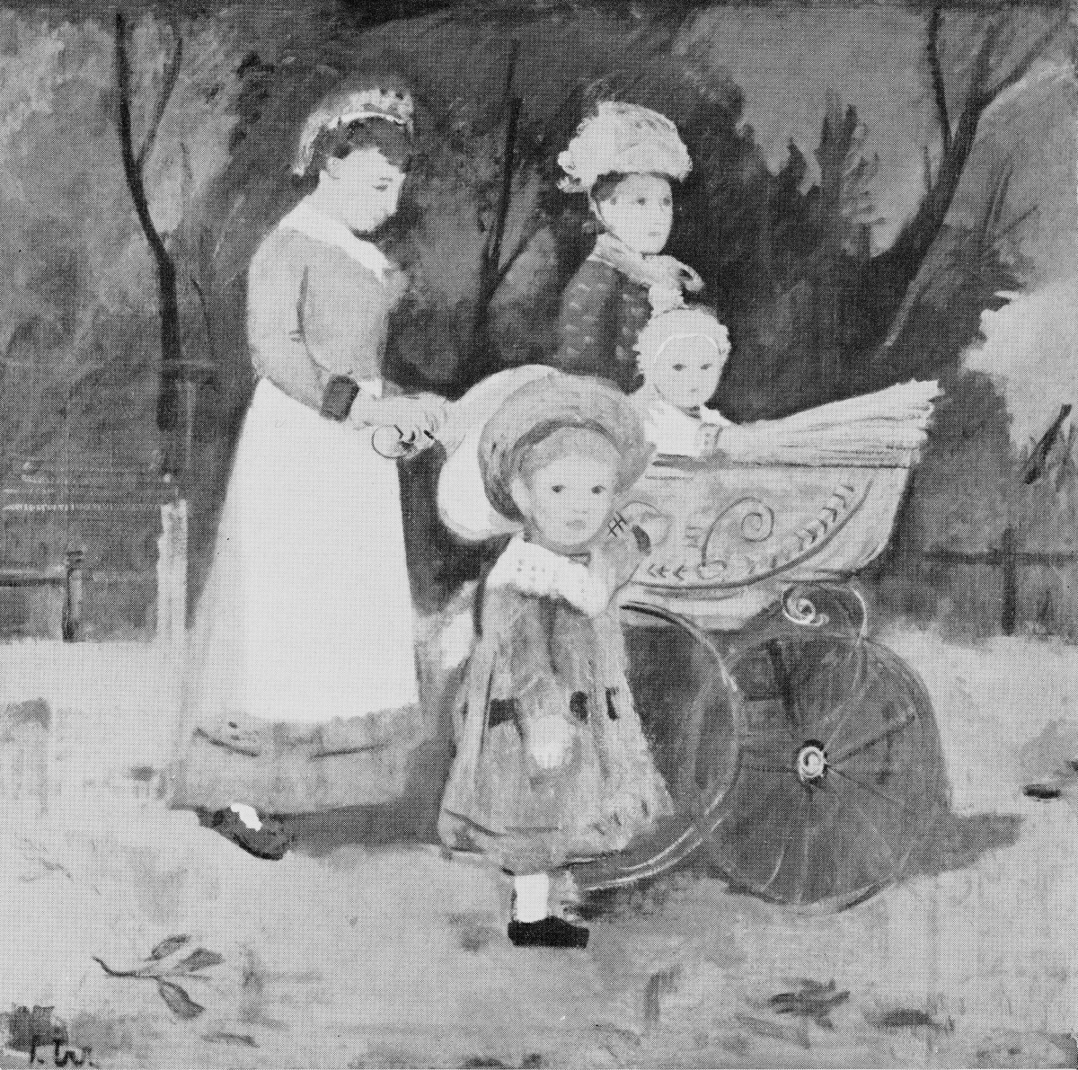 Painting "The walk"